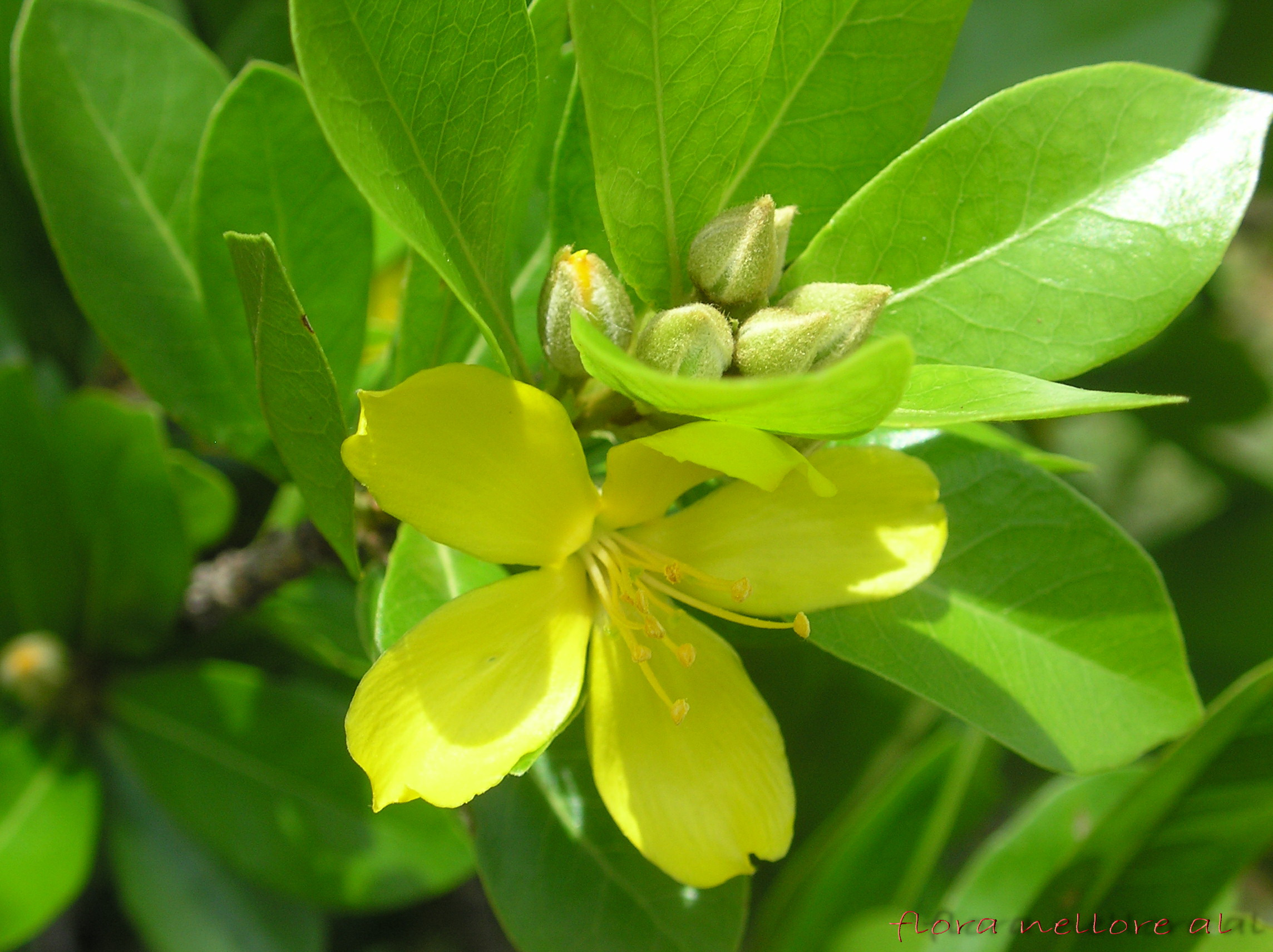 "Taxonomy: Family=Linaceae" Local name(Telugu) Kaaki beera A common liane found in scrub forests of south India.twigs tomentose; Leaves elliptic obovate, glabrous, Flowers yellow 1.5 to 2 cm across, terminal or axilary clusters. The lowest of two peduncles of each branch often turned into spiral hooks.Calyx5 lobes, corolla 5 , stamens 10, connate into a short tube ovary 5 celled, stles 5 filiform, drupe globose fleshy. Bark is aromatic and used as antidote for poison.